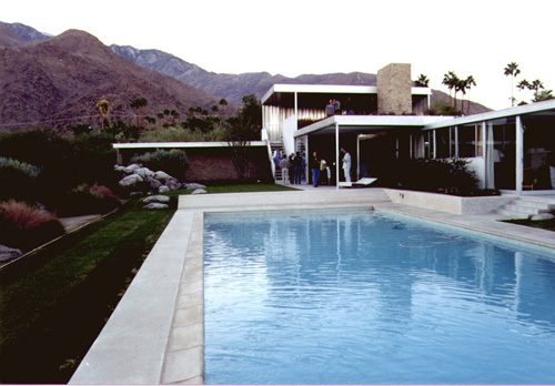 There described as follows: Richard Neutra's Kaufman House (1946) in Palm Springs, California. Located at 740 W. Chino Canyon Road, Palm Springs Richard Neutra designed this house for the Kaufman family. The house is considered a prime example of modernism, and was made famous by the photograph by Julius Shulman. The Kaufman house was restored by the architecture firm Marmol and Radziner of Santa Monica, California in the late 1990s and is privately owned. Photo taken November 2000. Image copyright Barbara Alfors 2000. Permission is granted to copy, distribute and/or modify under the GFDL, version 1.2 any later version published by the Free Software Foundation; with no Invariant Sections, with no Front-Cover Texts, and with no Back-Cover Texts. Licensed for use in accordance with the GFDL. File history Legend: (cur) = this is the current file, (del) = delete this old version, (rev) = revert to this old version. Click on date to download the file or see the image uploaded on that date. (del) (cur) 05:28, 29 Jun 2003 . . Aion (80175 bytes) (Richard Neutra's Kaufman House (1946) in Palm Springs)